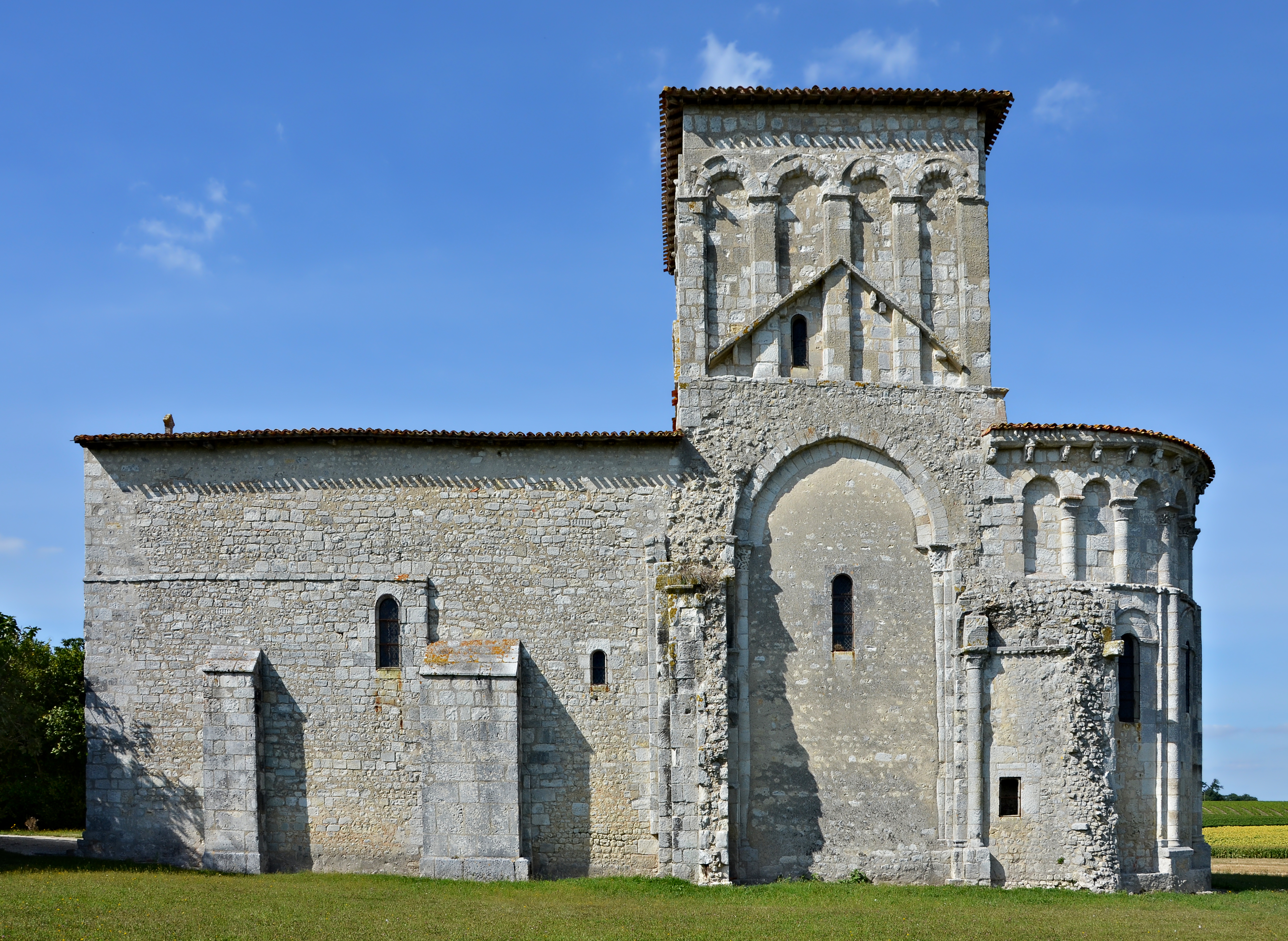 Church of Conzac (12th and 17th centuries), view from SSE, Saint-Aulais-la-Chapelle, Charente, France. It is indexed in the Base Mérimée, a database of architectural heritage maintained by the French Ministry of Culture, under the references PA00104488 and IA00041484 .